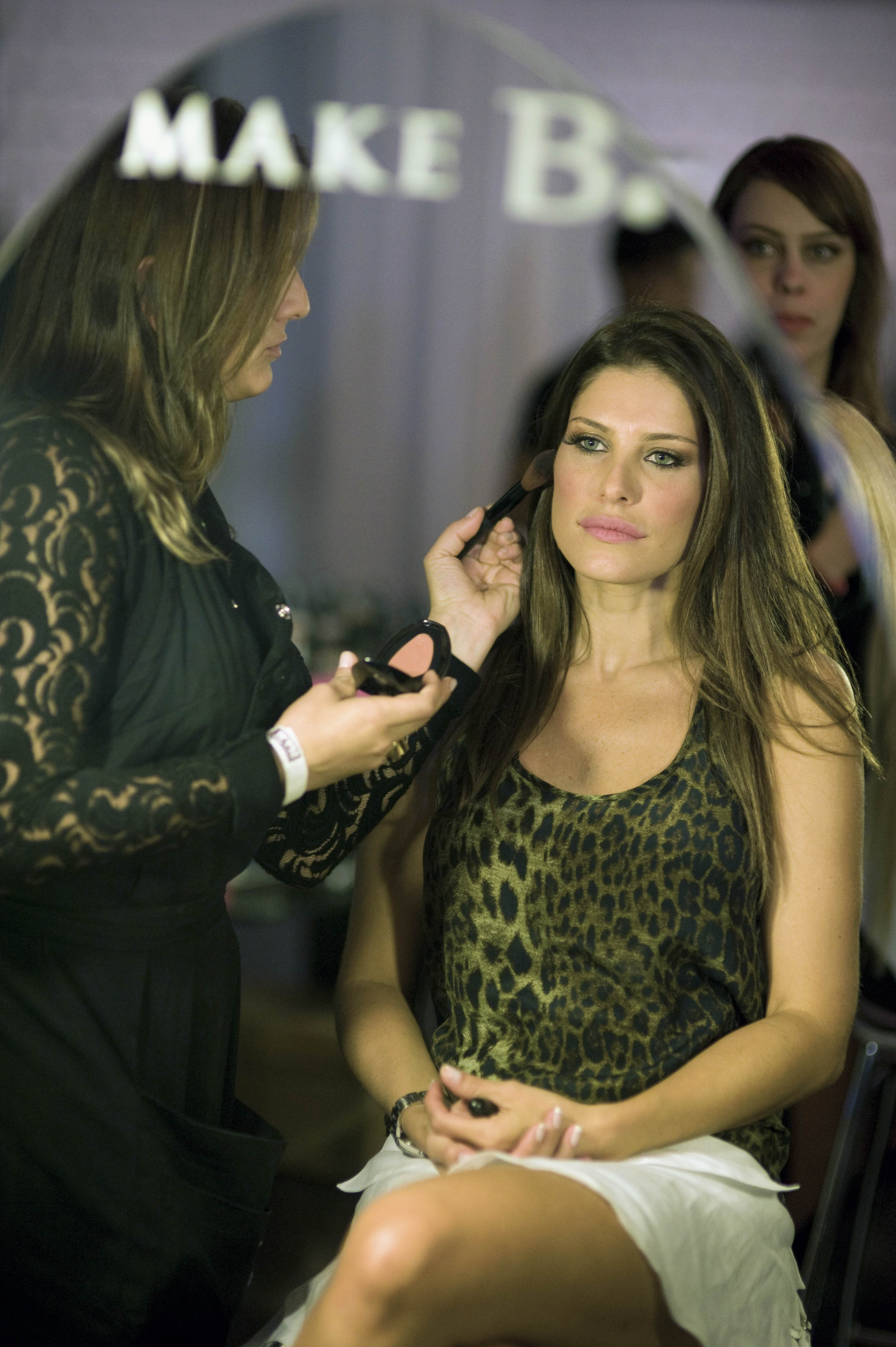 Ana Luiza Castro: animal print e make clássico